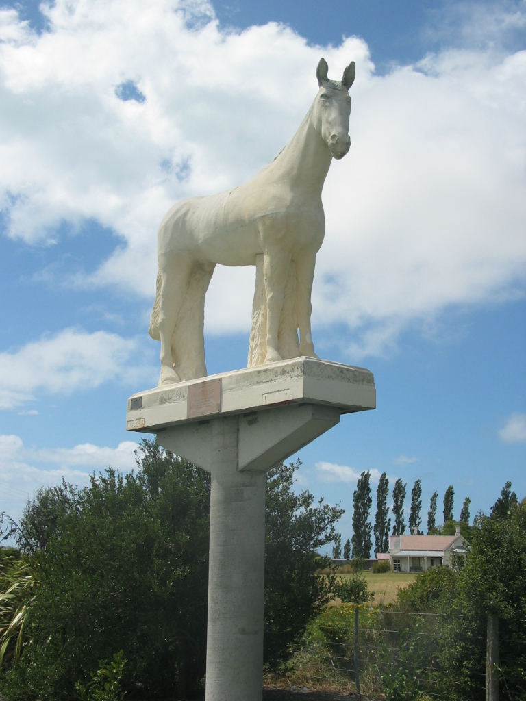 Phar Lap Statue just outside of Timaru, New Zealand.